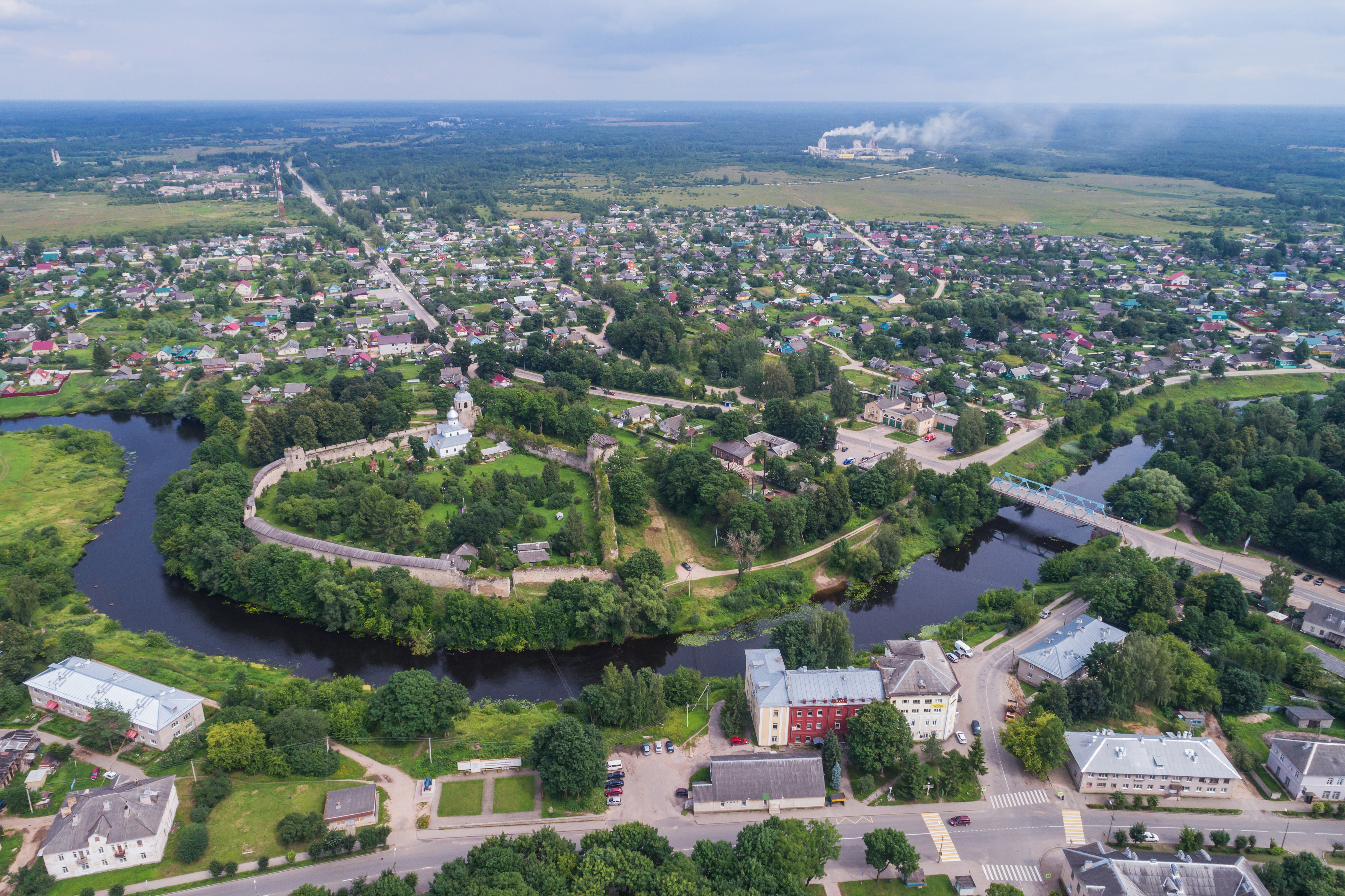 Aerial photo – Fortress in Porkhov, Pskov Oblast, Russia.